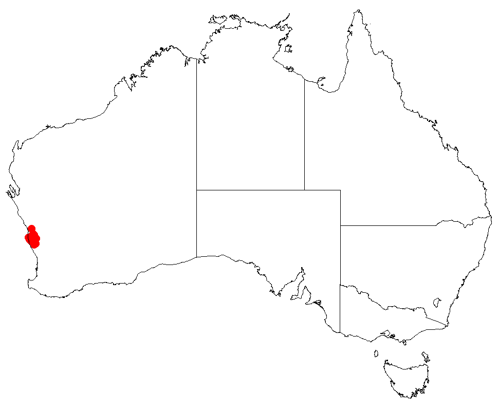 Hakea flabellifolia Occurrence data downloaded from Australasian Virtual Herbarium on 22 November 2018 using